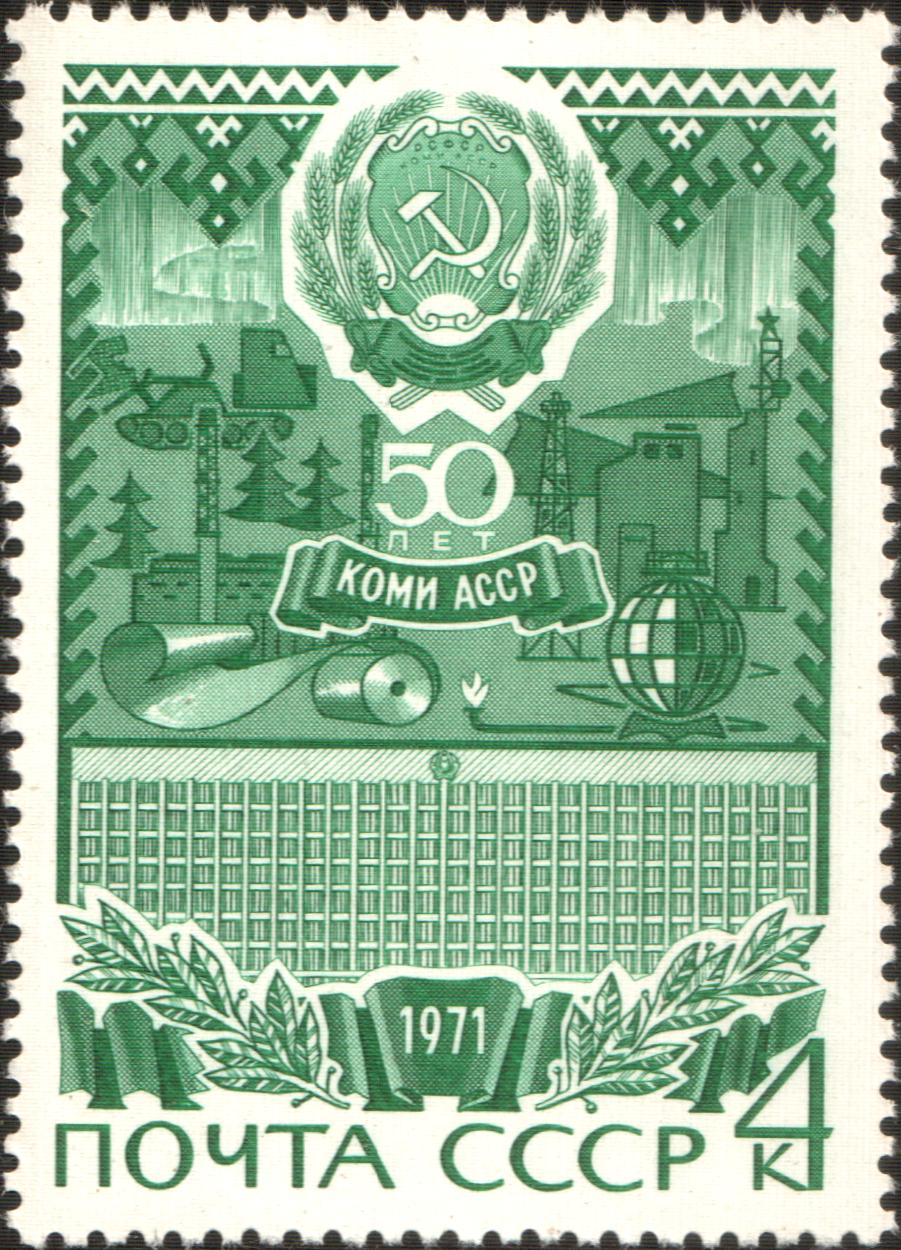 USSR stampː Komi Autonomous Soviet Socialist Republic (Established on 1921.08.22). Seriesː 50th Anniversary of the Autonomous Republics of the Soviet Union